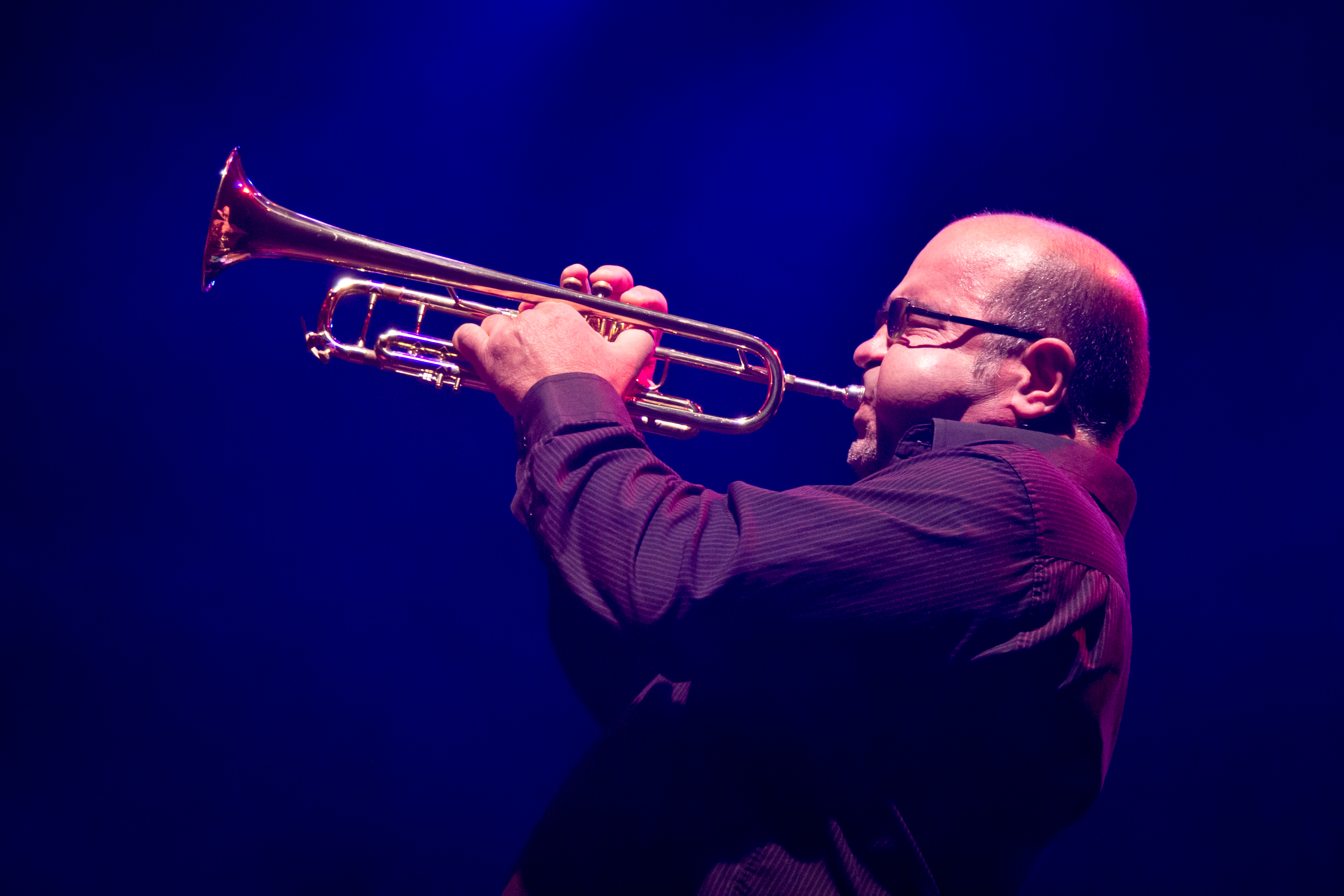 Reinaldo Melián, trumpeter of Chucho Valdés & The Afro-Cuban Messengers, at a concert in Teatro Circo Price, Madrid, Spain.